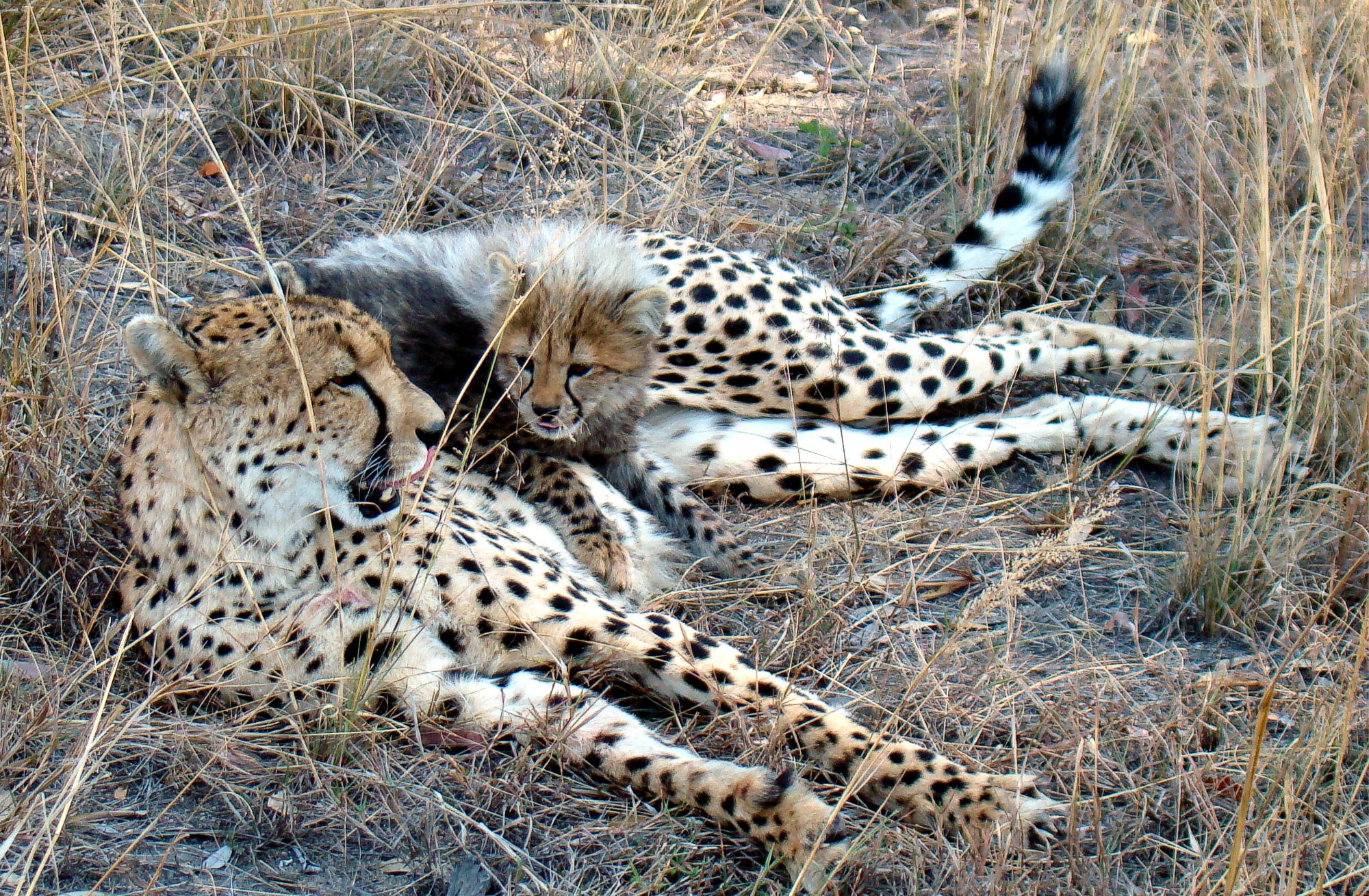 A little cheetah lying on his mom, photographed in Sabi Sand Private Game Reserve, South Africa.